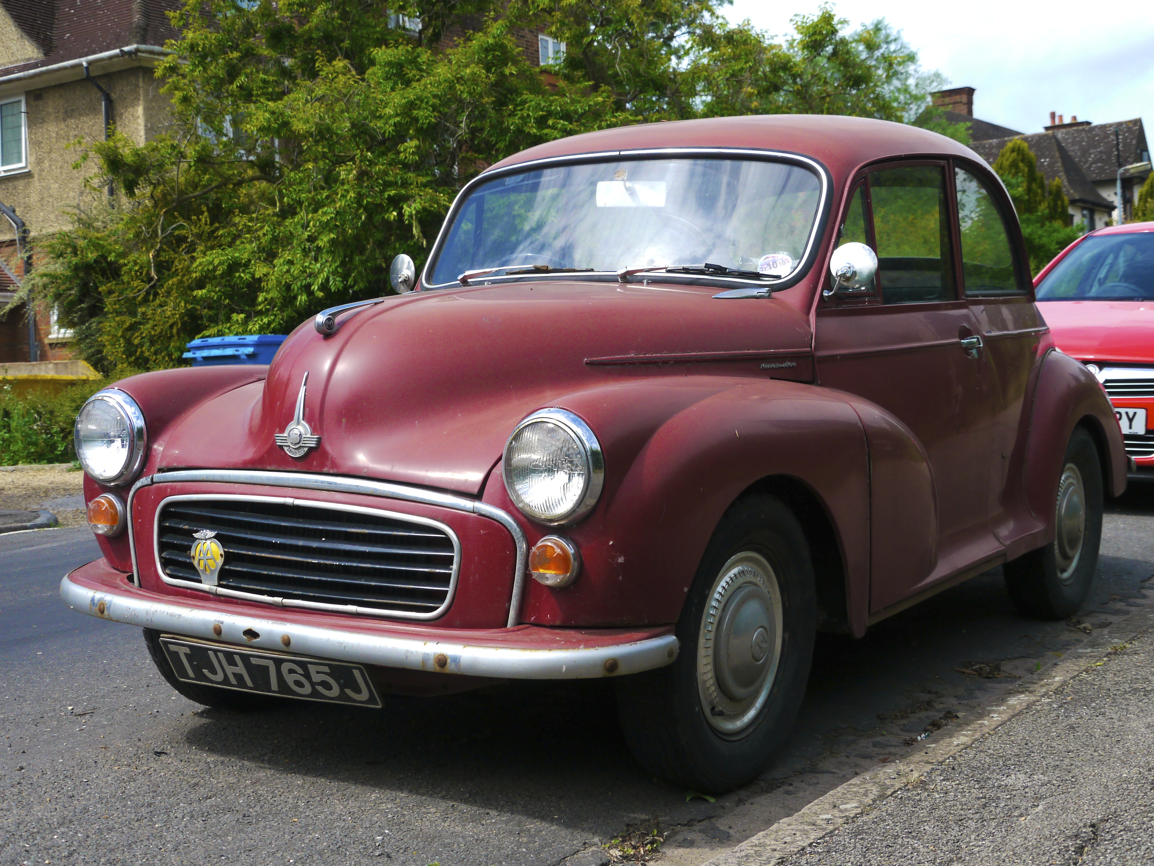 Morris Minor 1000.